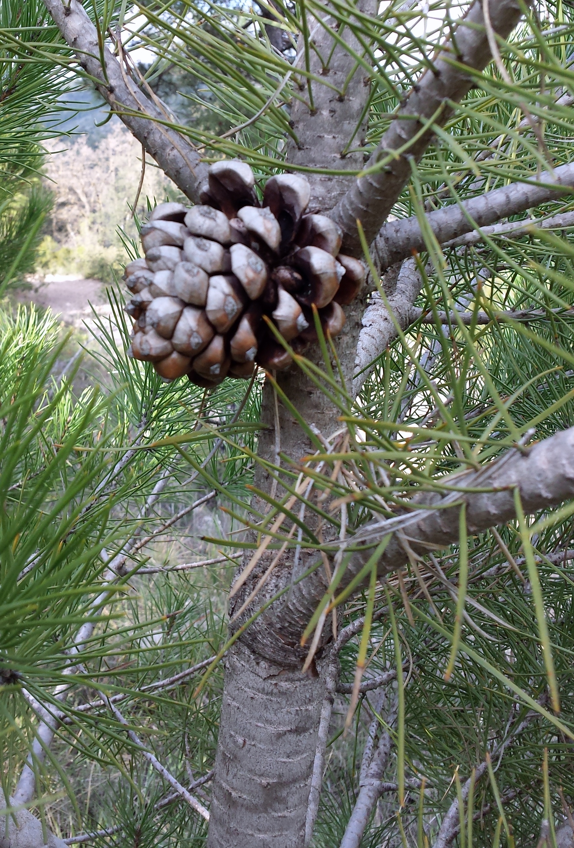 First cone (2015) from a stone pine (Pinus pinea) from a seed ( 1994), Castelltallat, Catalonia